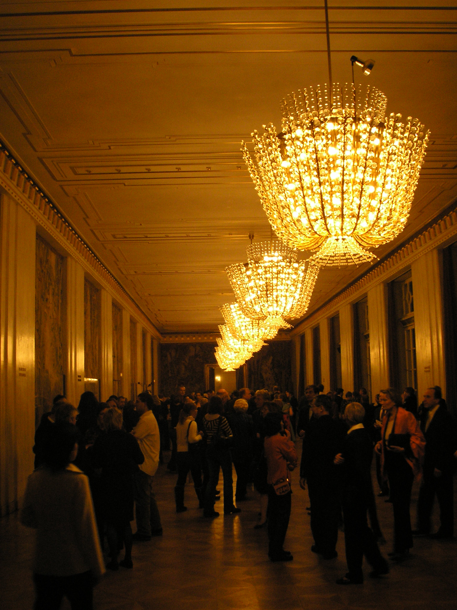 Description: View of the Gustav-Mahler-Saal in the Vienna State Opera. Gustav-Mahler-Saal in der Wiener Staatsoper. Source: Self-made, I release it into the public domain.